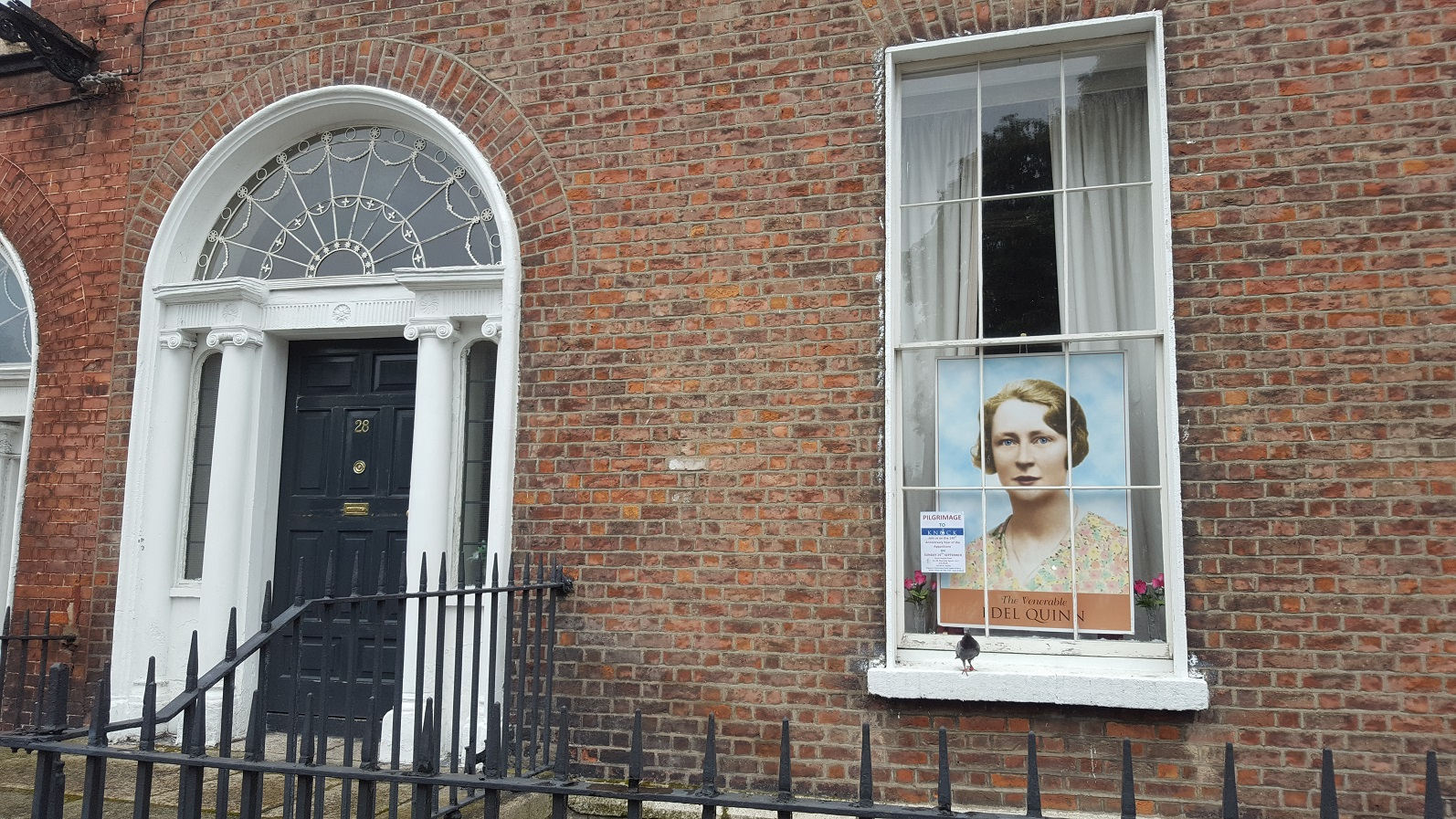 Houses 26 to 29 Mountjoy Square East were owned by the Jesuits for most of the twentieth-century[1] Among these were Fr. Cullen House at number 27, housing St Francis Xavier Pioneer Club the local branch of the Pioneer Total Abstinence Association (where Fr. Cullen founded the movement), and St. Therese's Girls Club House at number 28, housing Legion of Mary facilities.[2] The Legion of Mary work with the Dominican Sisters and the Jesuits. ↑ The National Inventory of Architectural Heritage (NIAH) (2011-11-16). Fr. Cullen House, Mountjoy Square East, Dublin City. ↑ Erika Hanna (2015) P 147, Modern Dublin: Urban Change and the Irish Past, 1957-1973, Oxford: Oxford Universoity Press